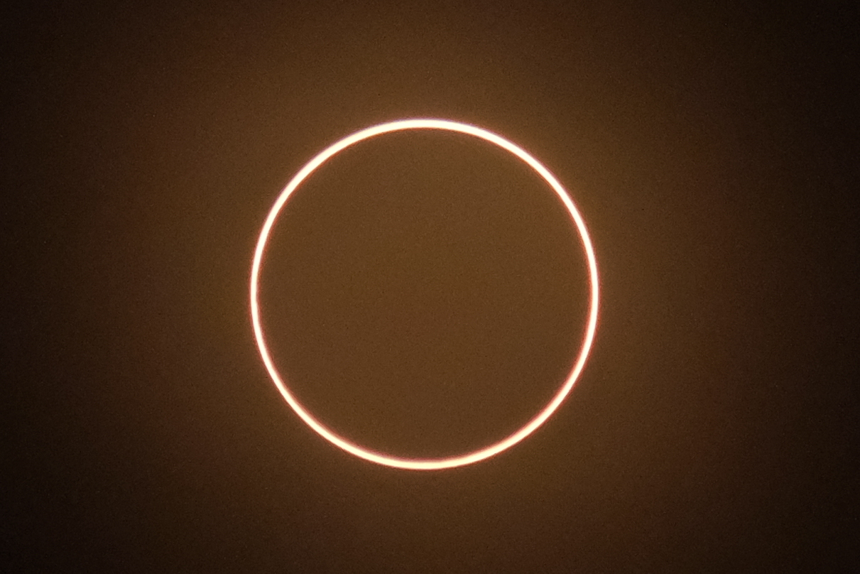 Solar eclipse of 21 June 2020 in Beigang, Yunlin, Taiwan, Captured with XF 55-200 + ND100000 solar filter.